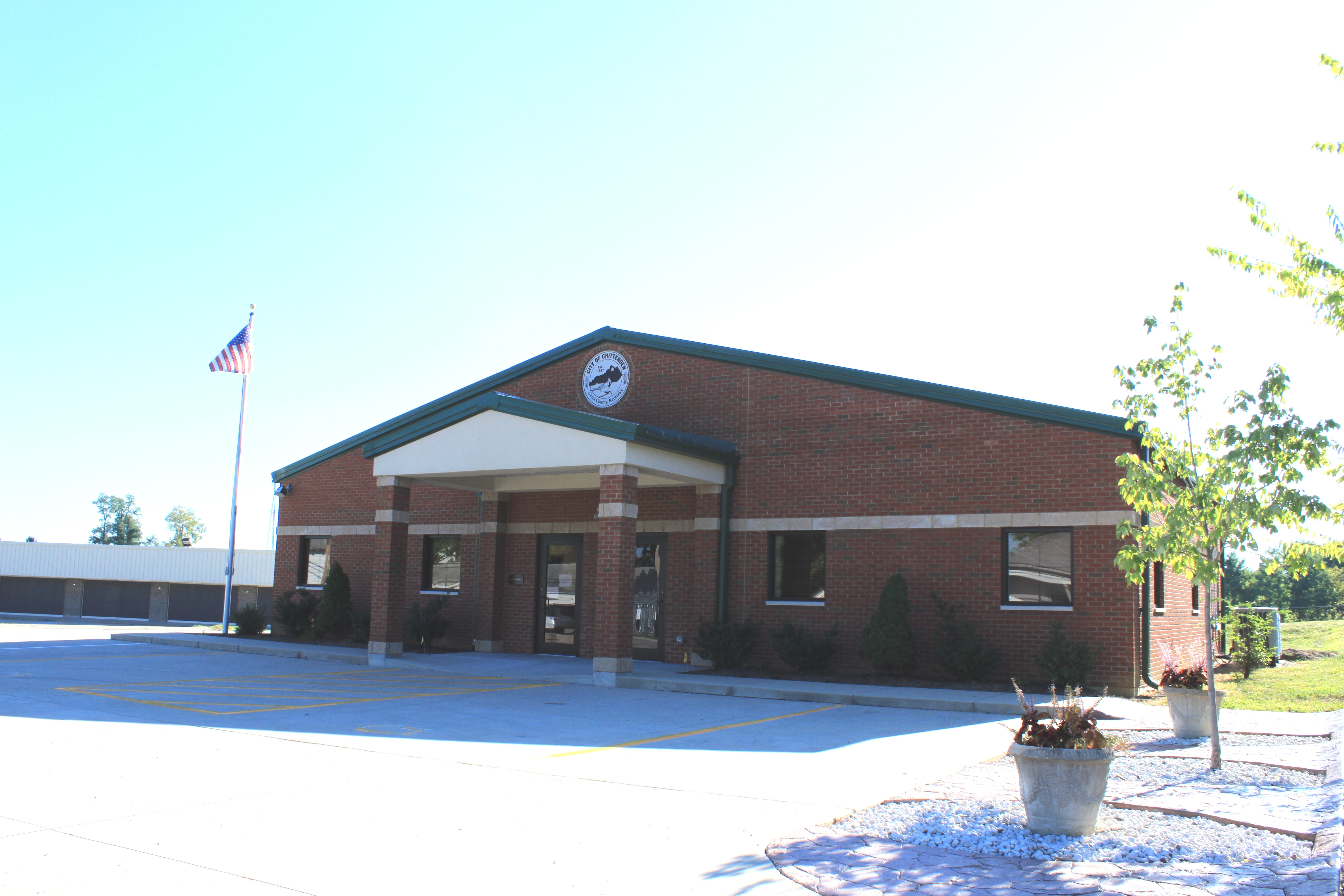 Crittenden, Kentucky City Hall, 104 North Main Street (US-25), Crittenden, Kentucky.